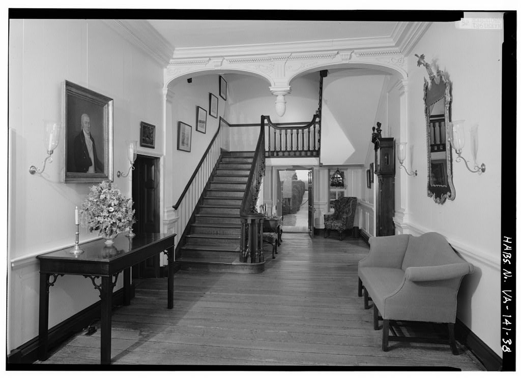 The entrance of Gunston Hall.